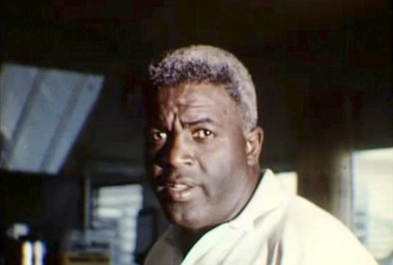 Torch of Friendship Local call number: V-40; CA133 Title: [The Torch of Friendship] Date of film: Early 1960s Physical descrip: Color; sound; original length: 14:50 General note: Excerpt of original film promoting the Hampton House Hotel in Miami, a business oriented to an African-American clientele. The film describes how notable black men and women of the 1960s gathered there, such as Ralph Metcalf (gold medalist, 1932 & 1936 Olympics), Althea Gibson (Wimbledon Champ), Martin Luther King Jr., singer Jackie Wilson, and baseball Hall of Famer Jackie Robinson. The film follows a formula similar to other promotional films, except almost everyone in it is black. The complete footage shows entertainment, the owners, a fashion show, dog and horse racing, the Miami Seaquarium, the Torch of Friendship, Yogi Berra, Mickey Mantle, the Baltimore Orioles, and the FAMU Track team. Produced by Don Parisher. To see full-length versions of this and other videos from the State Archives of Florida, visit Repository: State Library and Archives of Florida, 500 S. Bronough St., Tallahassee, FL 32399-0250 USA. Contact: 850.245.6700. Persistent URL: Screen capture showing only Jackie Robinson, full film available as above.